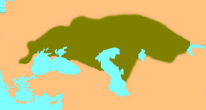 Map showing the boundary of the Pre-mongol Turkic Kipchaks peoples in Eurasian steppes.